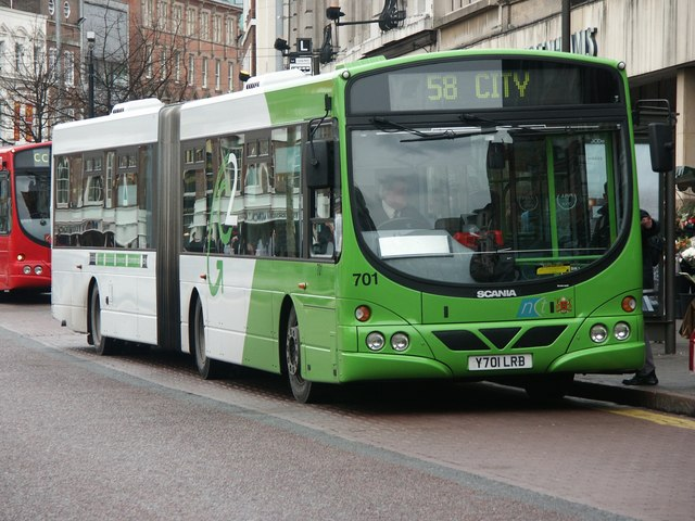 A Nottingham City Transport bus on route 58 outside Debenhams in Long Row, Nottingham. The bus is a Scania L94UA with Wright Solar Fusion body, registration mark Y701 LRB, fleet number 701.